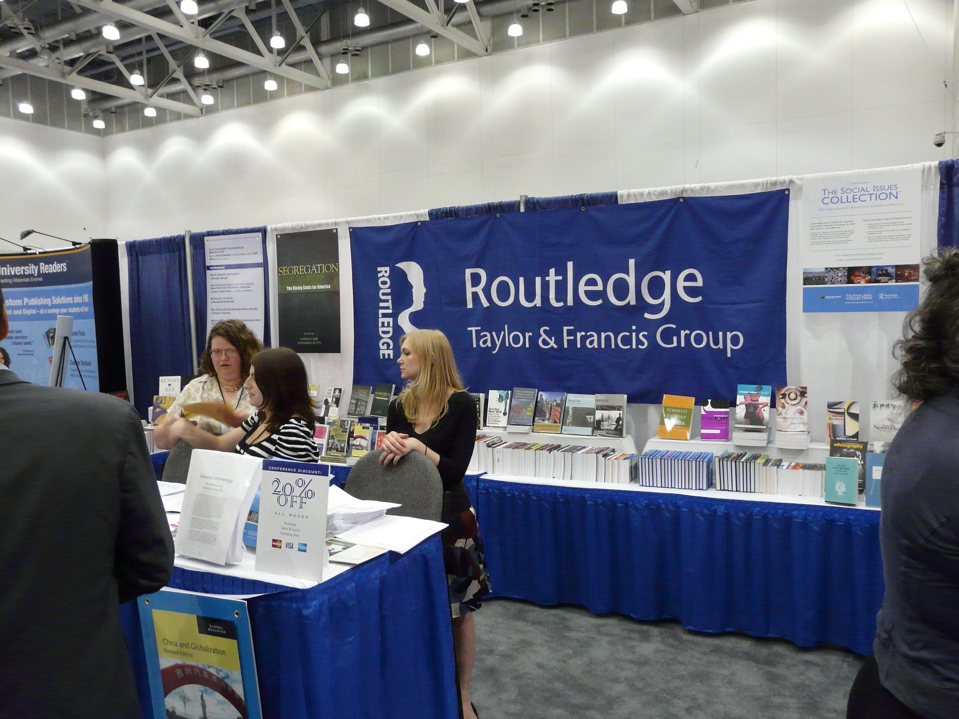 Boston. American Sociological Association conference.